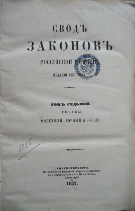 The Digest of Laws of the Russian Empire (vol. I)